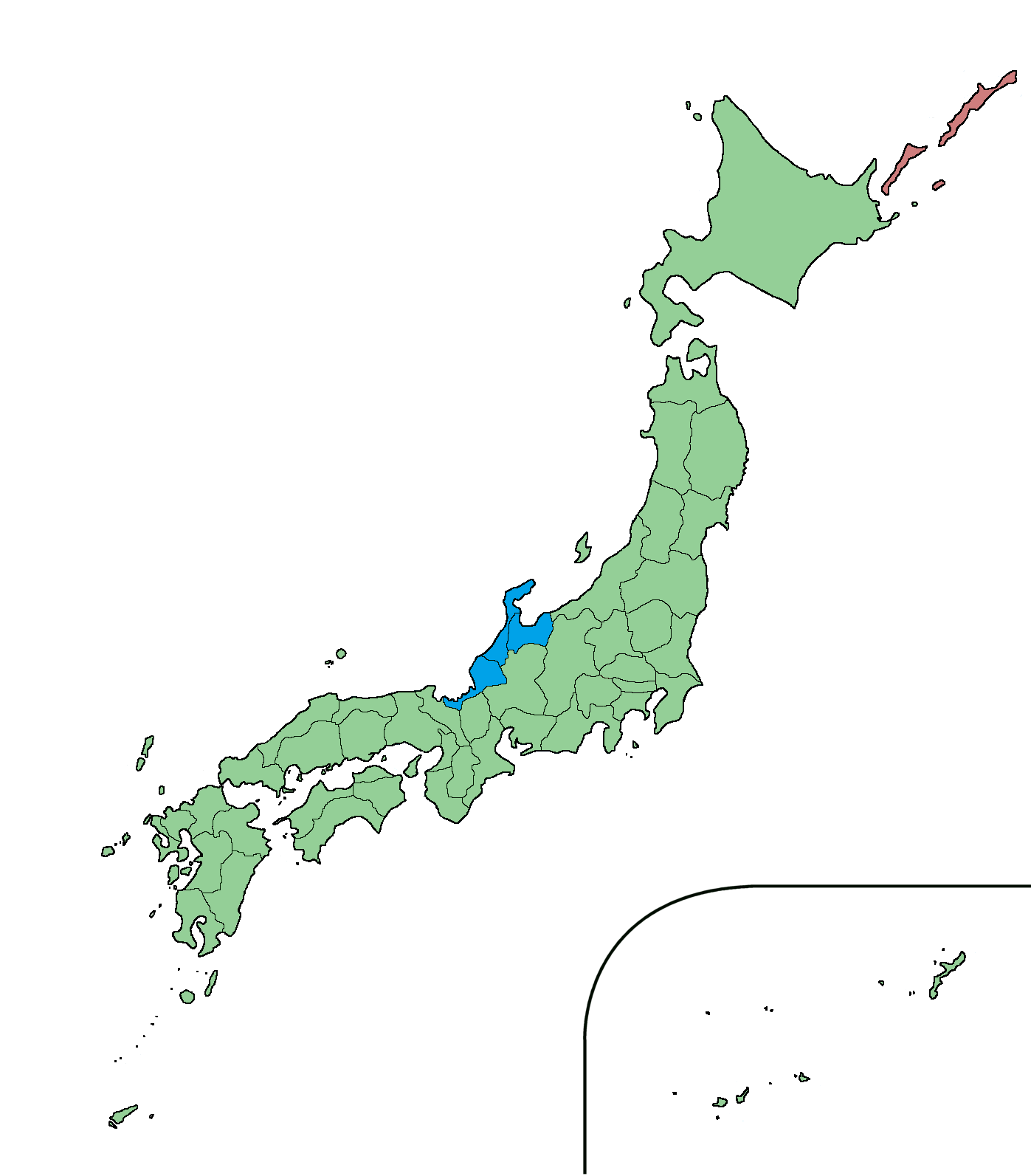 Large size map of Japan with Hokuriku region highlighted.